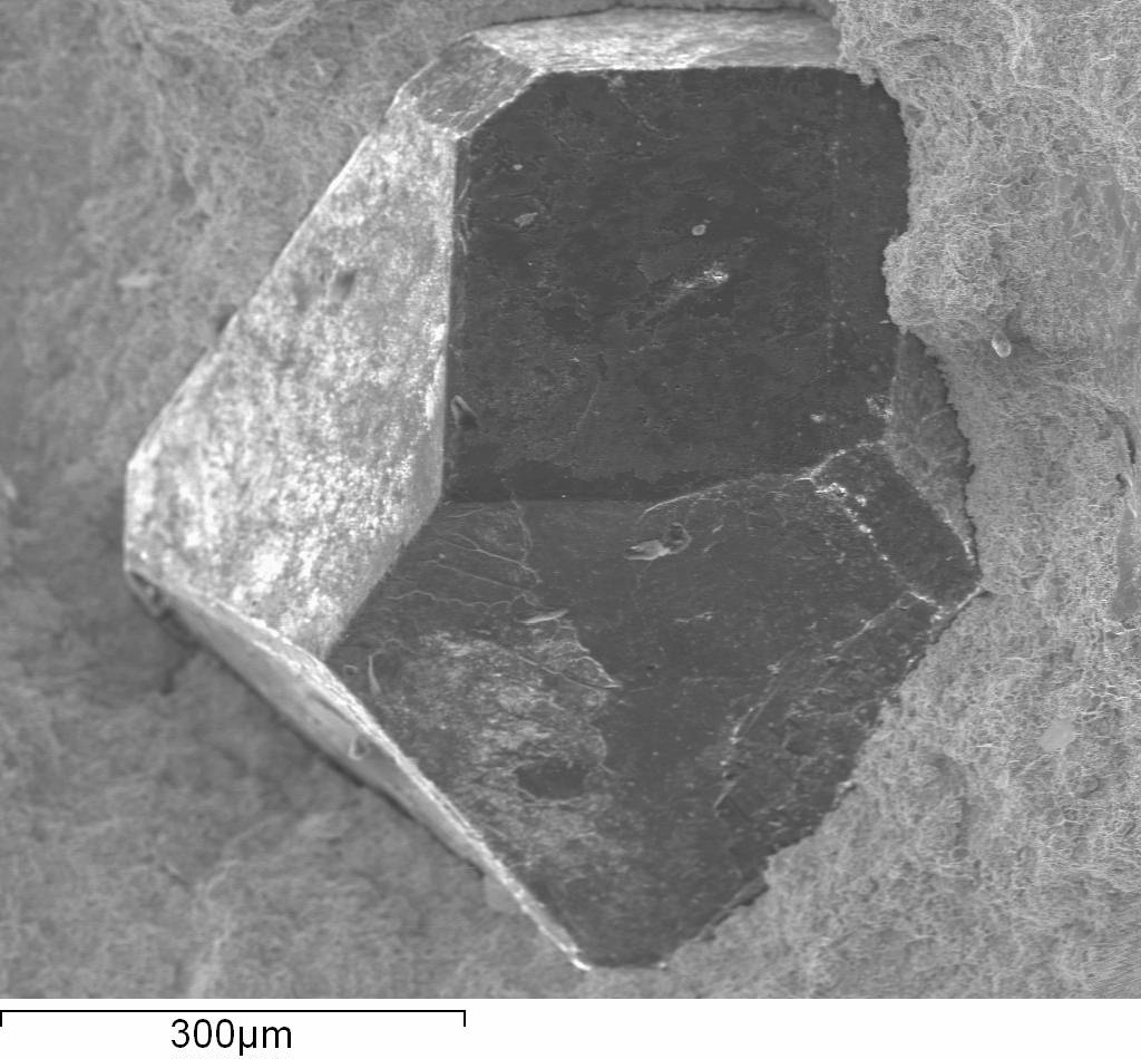 The snapshot of diamond in drilling tool